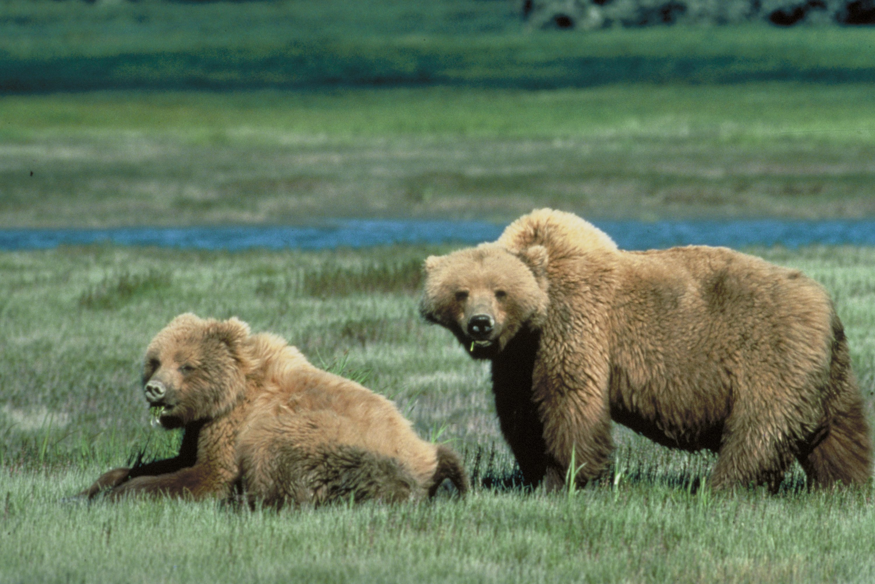 Two grizzly bears in a meadow in the Yellowstone park.